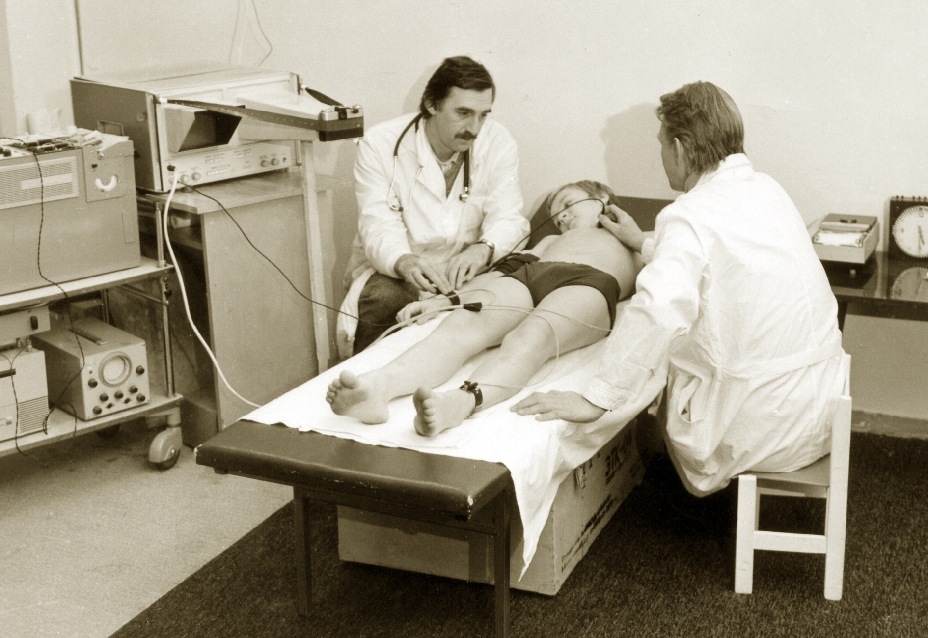 Boldirev Rem, docent of Pediatrics